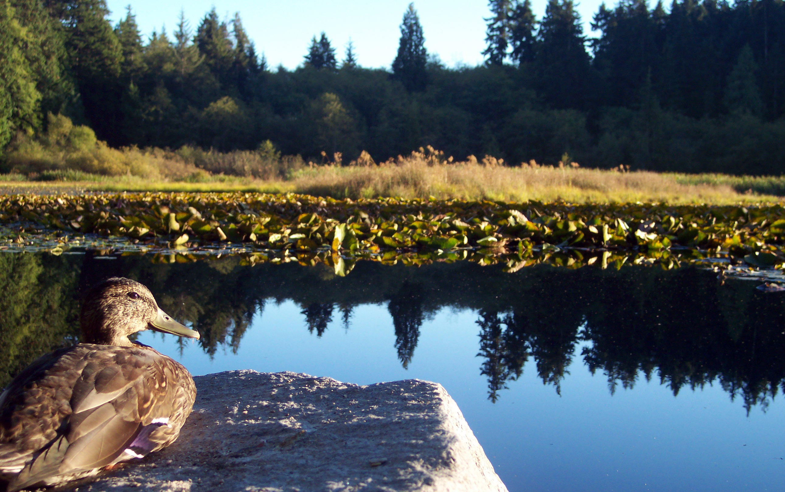 Beaver Lake, Stanley Park, Vancouver, BC, Canada